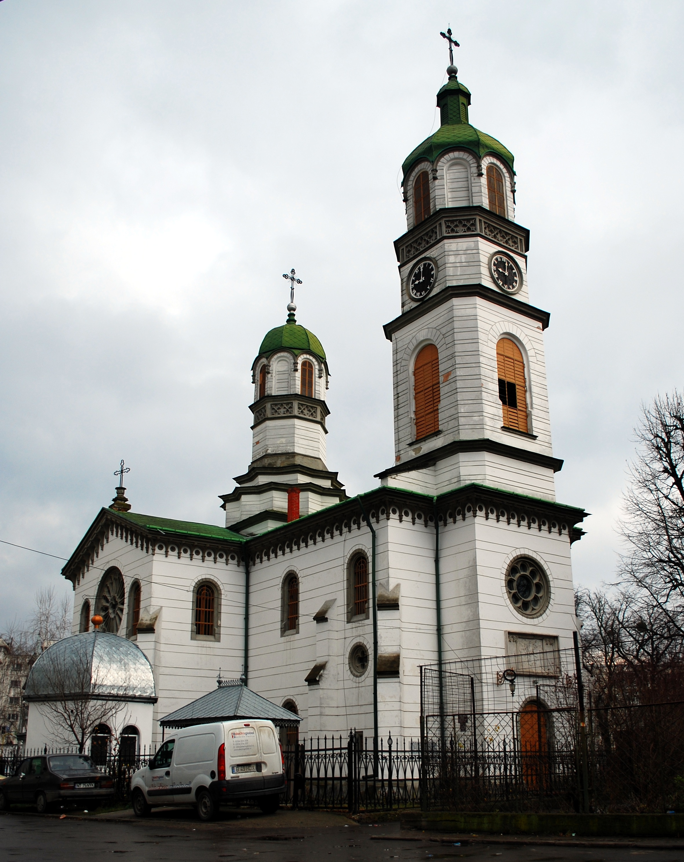 The former Armenian church in Roman, Romania, nowadays used by the Romanian orthodox community